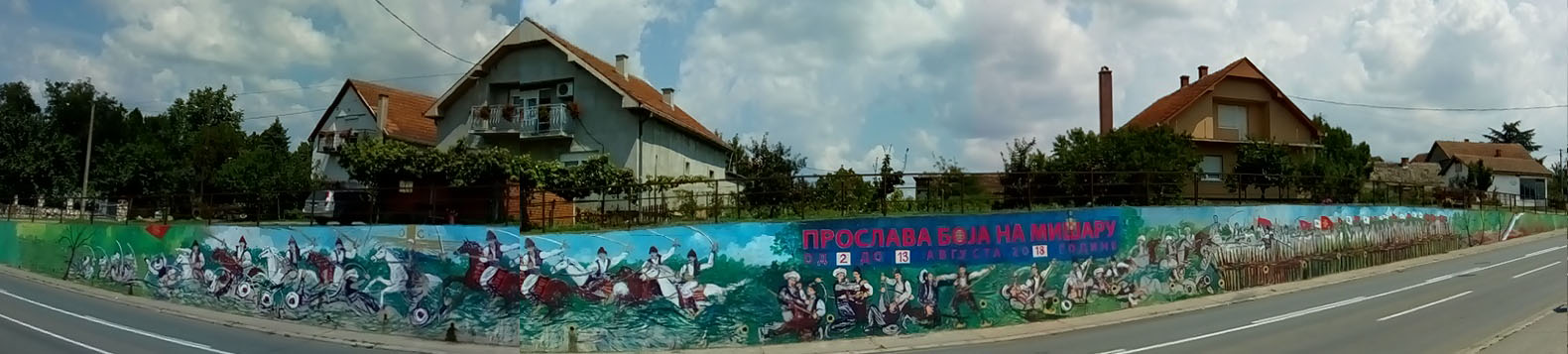 The Battle of Mišar panorama painting